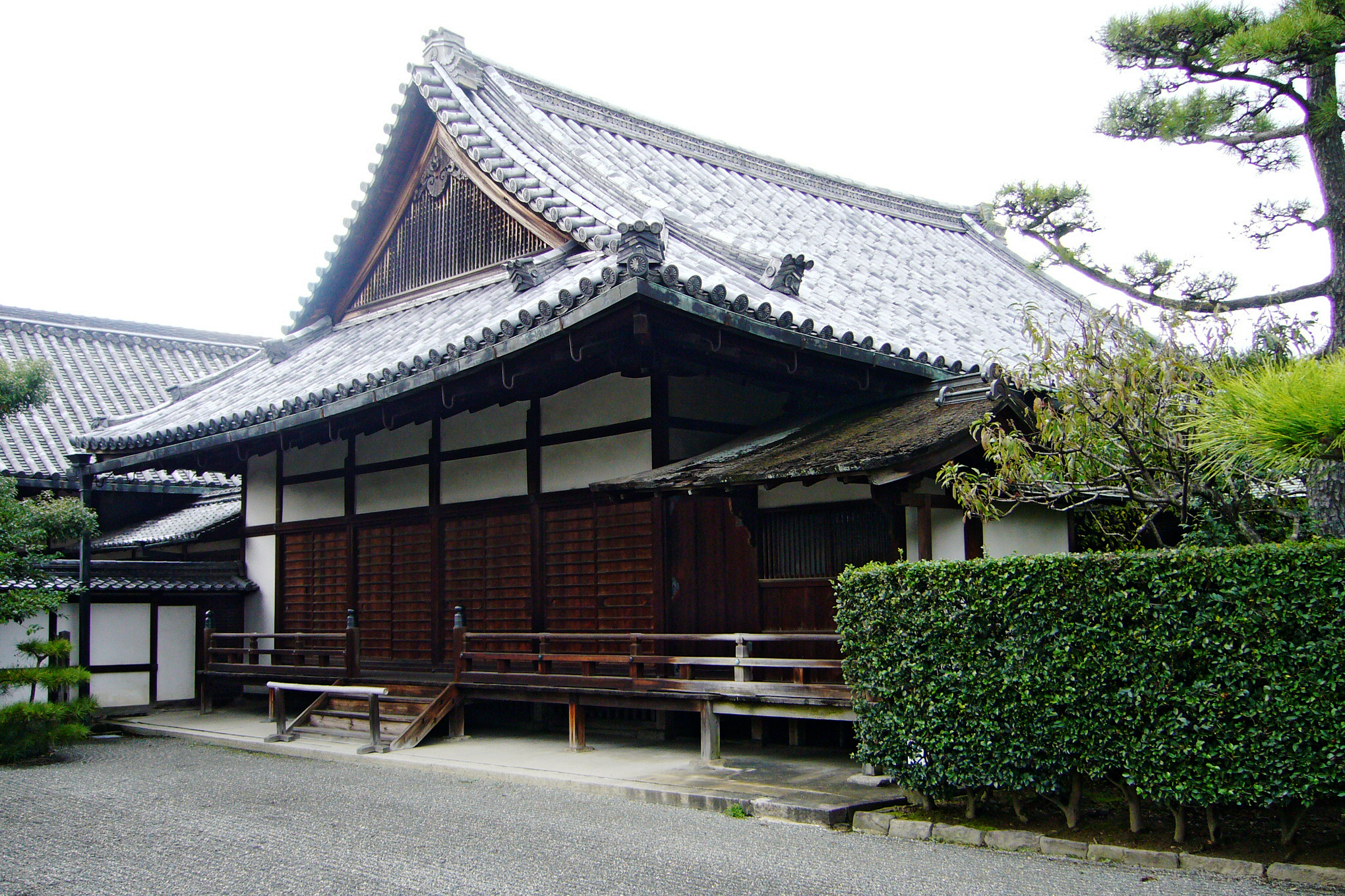 Chugu-ji in Ikaruga, Nara prefecture, Japan